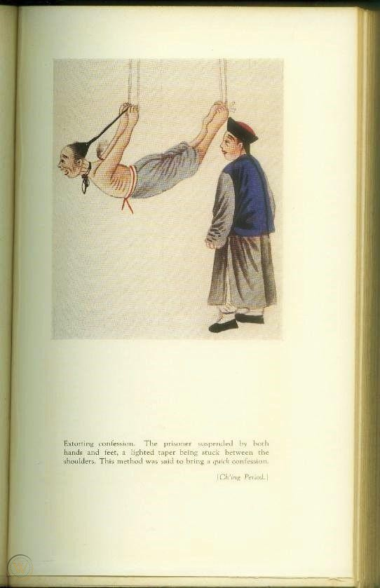 An illustration showing a prisoner whose hands and feet are suspended to extract confession in China. The official wears uniform for Qing dynasty. Taken from Through the Dragon's Eyes by Lewis Charles Arlington